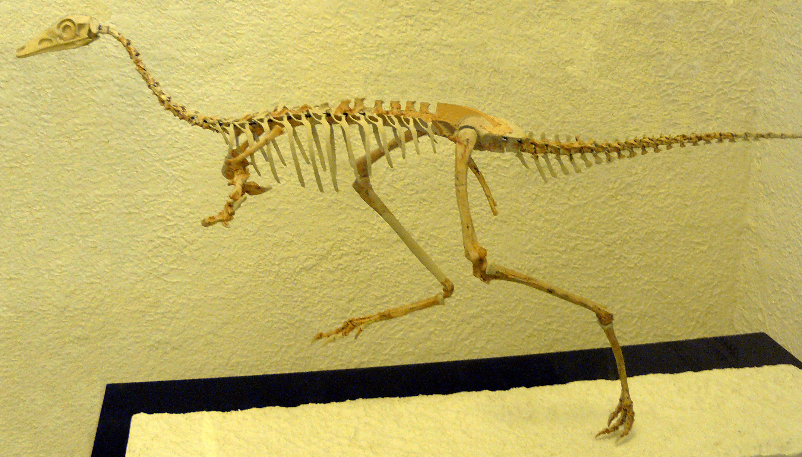 Mononykus skeleton, AMNH